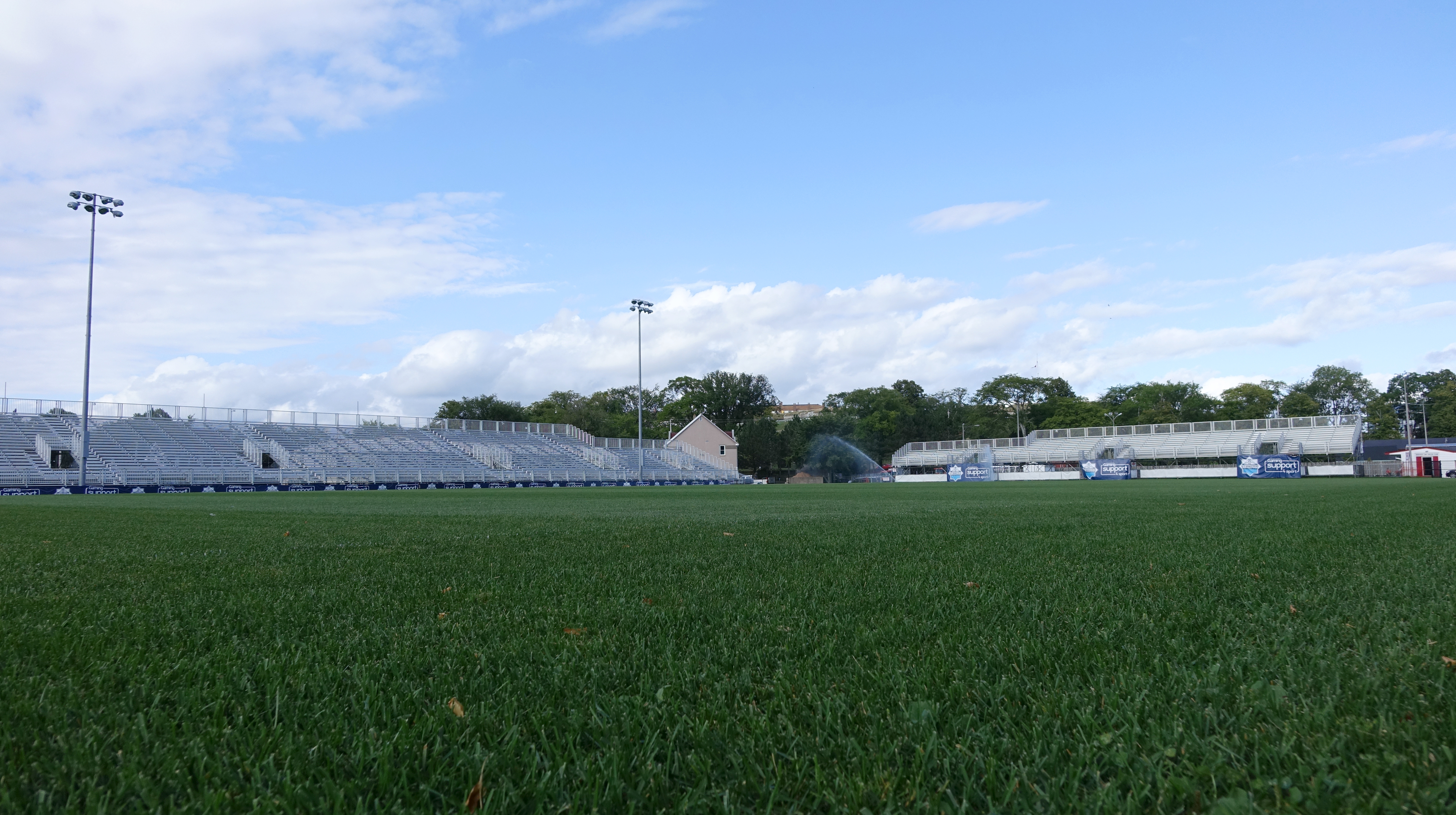 Full Album - Wanderers Grounds, Halifax Wanderers Grounds, Halifax, Nova Scotia, Canada. September 1, 2018.